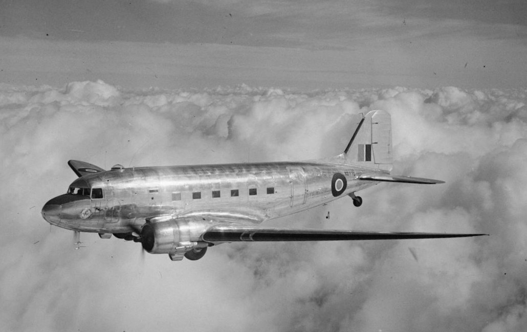 A Royal Air Force Douglas Dakota C.III VIP transport aircraft (serial KG770) of No. 24 Squadron RAF based at Hendon, Middlesex (UK), in flight carrying King George VI and Queen Elizabeth on a visit to the Channel Islands.